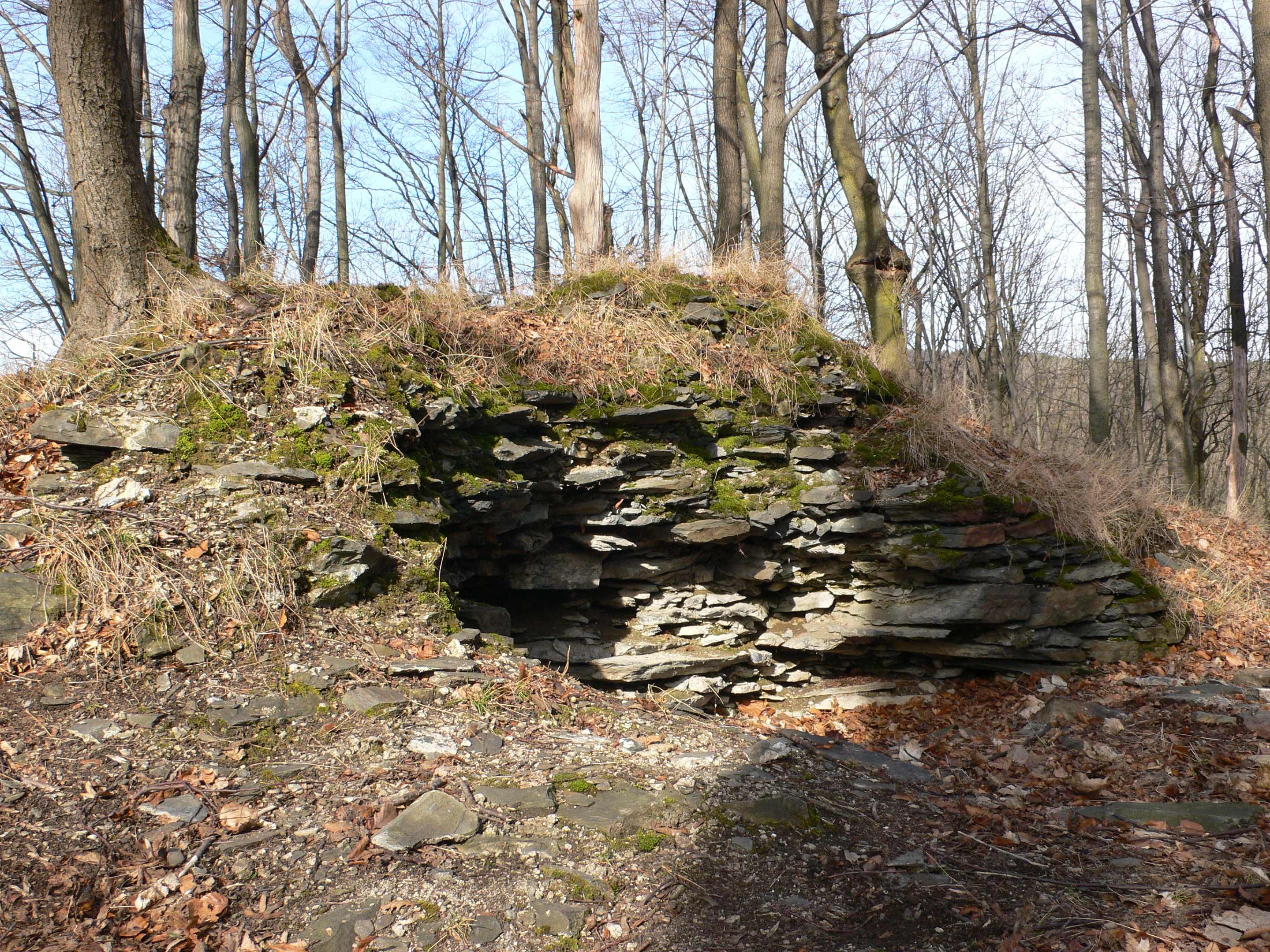 Ruins of a tower of castle Hluboký in Hlubočky.